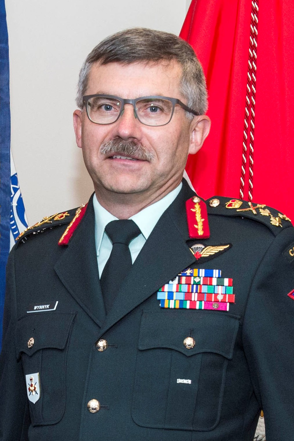 Lt. Gen. Paul F. Wynnyk, Commander of the Canadian Army